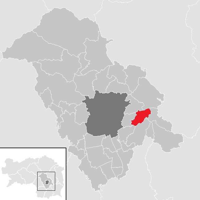 District Graz-Umgebung, Styria